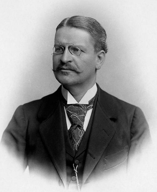 Alfred von Conrad. Photographie von J. C. Schaarwächter, 1900